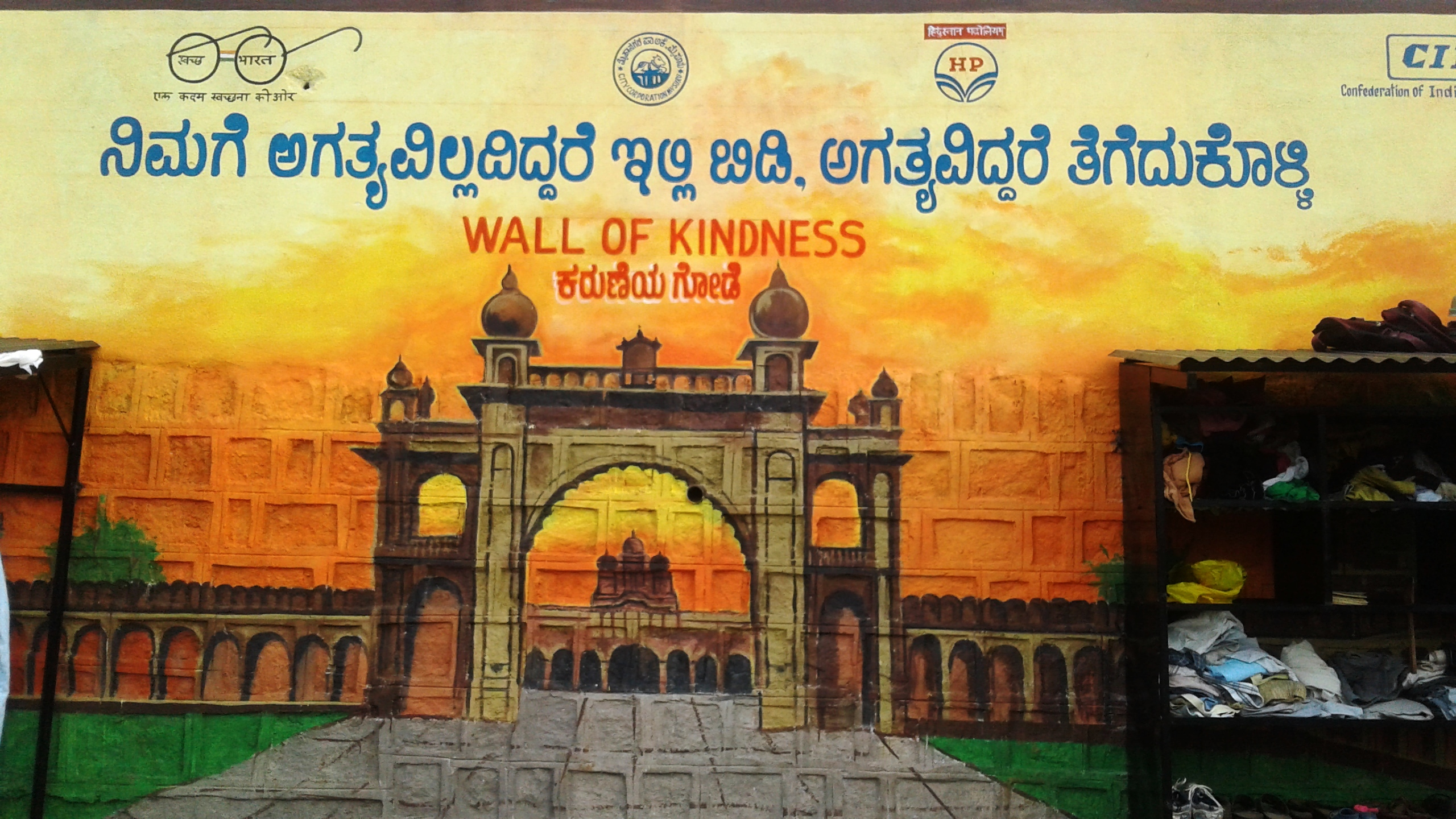 Karnataka state, India.